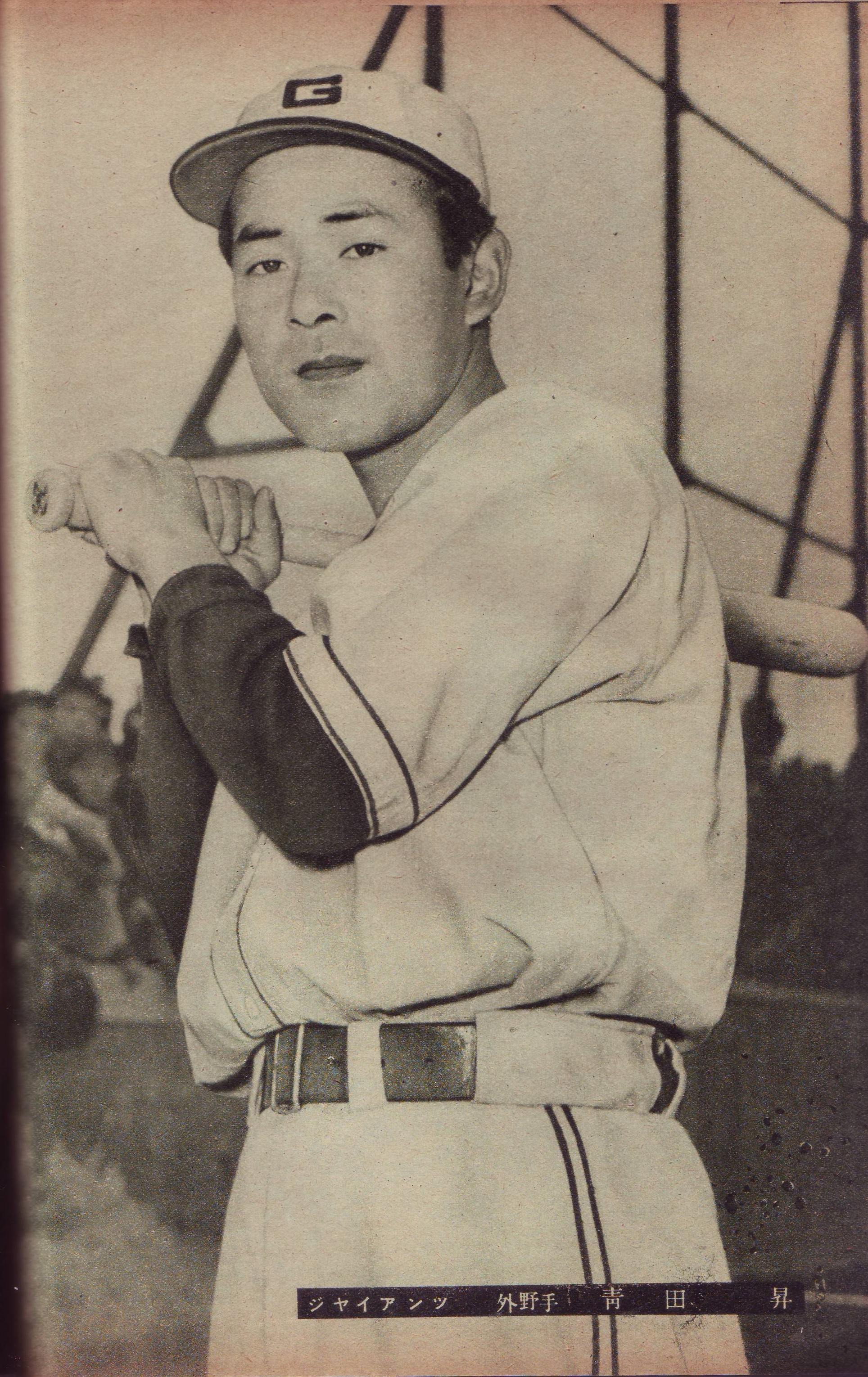 Noboru Aota. taken in 1950.